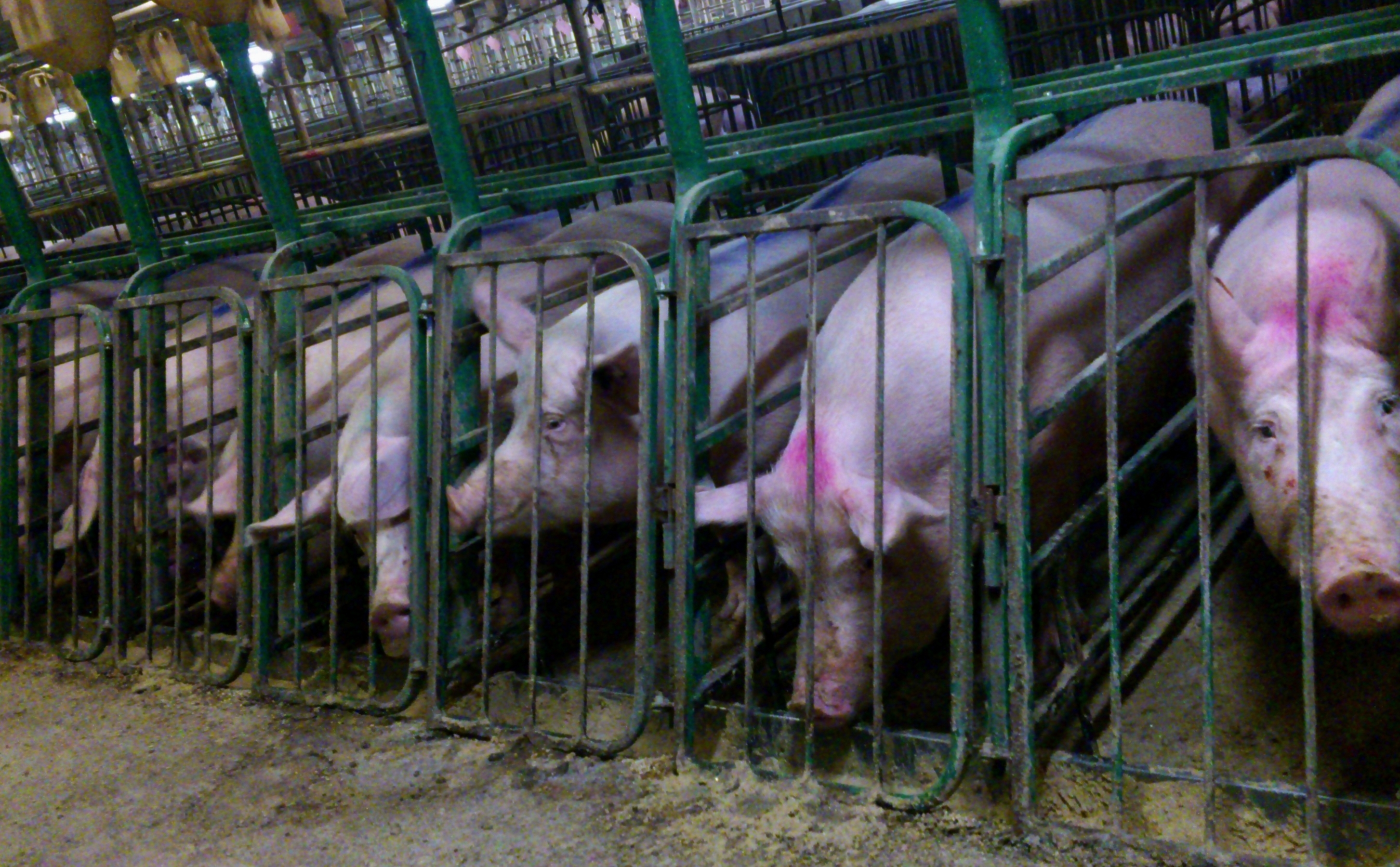 A groundbreaking Mercy For Animals undercover investigation provides a shocking look into blatant animal abuse at one of Canada's largest pork producers—Puratone—in Arborg, Manitoba. According to its website, these pigs are being raised "in a safe and responsible manner. This is a supplier for many of Canada's largest grocery chains, including Sobeys, Superstore/Loblaws, Metro, and Walmart. It In it we see pregnant pigs and their piglets are forced to suffer brutal abuse and lives of unrelenting confinement and misery. In late 2012, an Mercy For Animals investigator documented: Thousands of pregnant pigs confined to filthy, metal gestation crates so small the animals were unable to even turn around or lie down comfortably for nearly their entire lives Workers firing metal bolts into the skulls of pigs, leaving many still conscious and blinking Pigs suffering from large, open wounds and pressure sores from rubbing against the bars of their tiny cages or lying on the hard concrete flooring Pregnant pigs—physically taxed from constant birthing—suffering from distended, inflamed, and bleeding prolapses Workers slamming piglets into the ground and leaving them to slowly suffer and die Pigs too sick to stand being kicked, slapped, and pulled by their ears to force them to walk Workers cutting out testicles and slicing off the tails of fully conscious piglets without the use of any painkillers